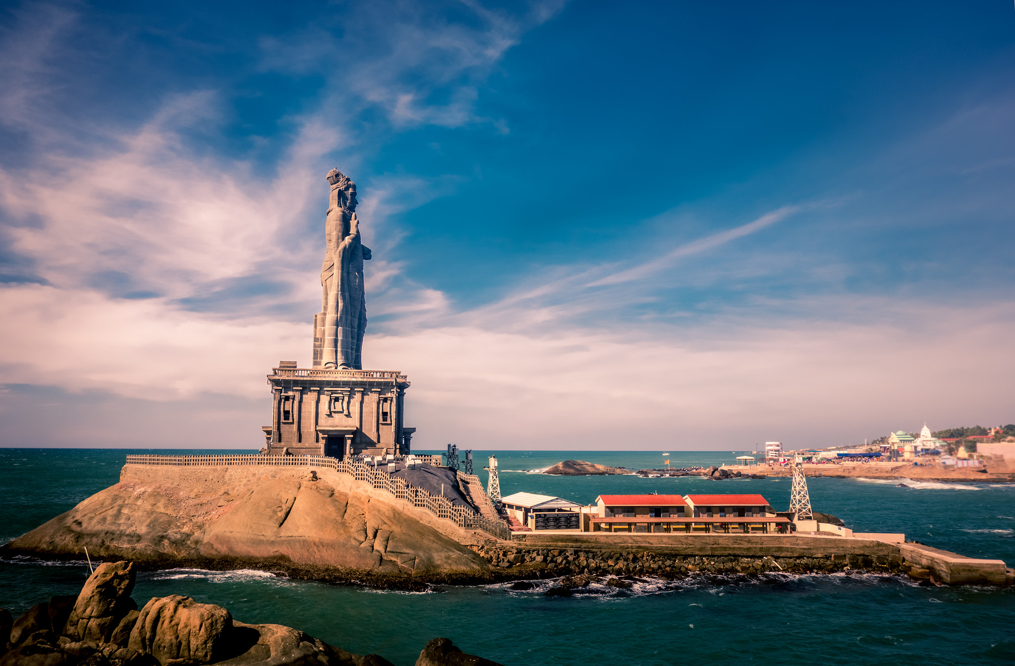 500px provided description: Thiruvalluvar Statue at Kanyakumari. It is a 133 feet tall stone sculpture erected in memory of the great Tamil poet and philosopher Thiruvalluvar Kanyakumari is at the southern tip of Indian subcontinent where Indian Ocean, Bay of Bengal and Arabian sea meet. [#sea ,#travel ,#statue ,#seascape ,#memorial ,#landmark ,#travel photography ,#India ,#South India ,#Kanyakumari ,#Thiruvalluvar ,#Thiruvalluvar statue ,#rock memorials]